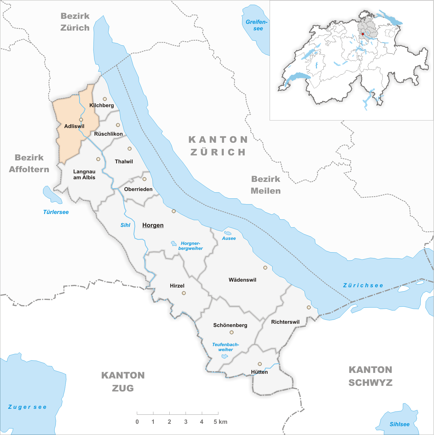 Municipality Adliswil